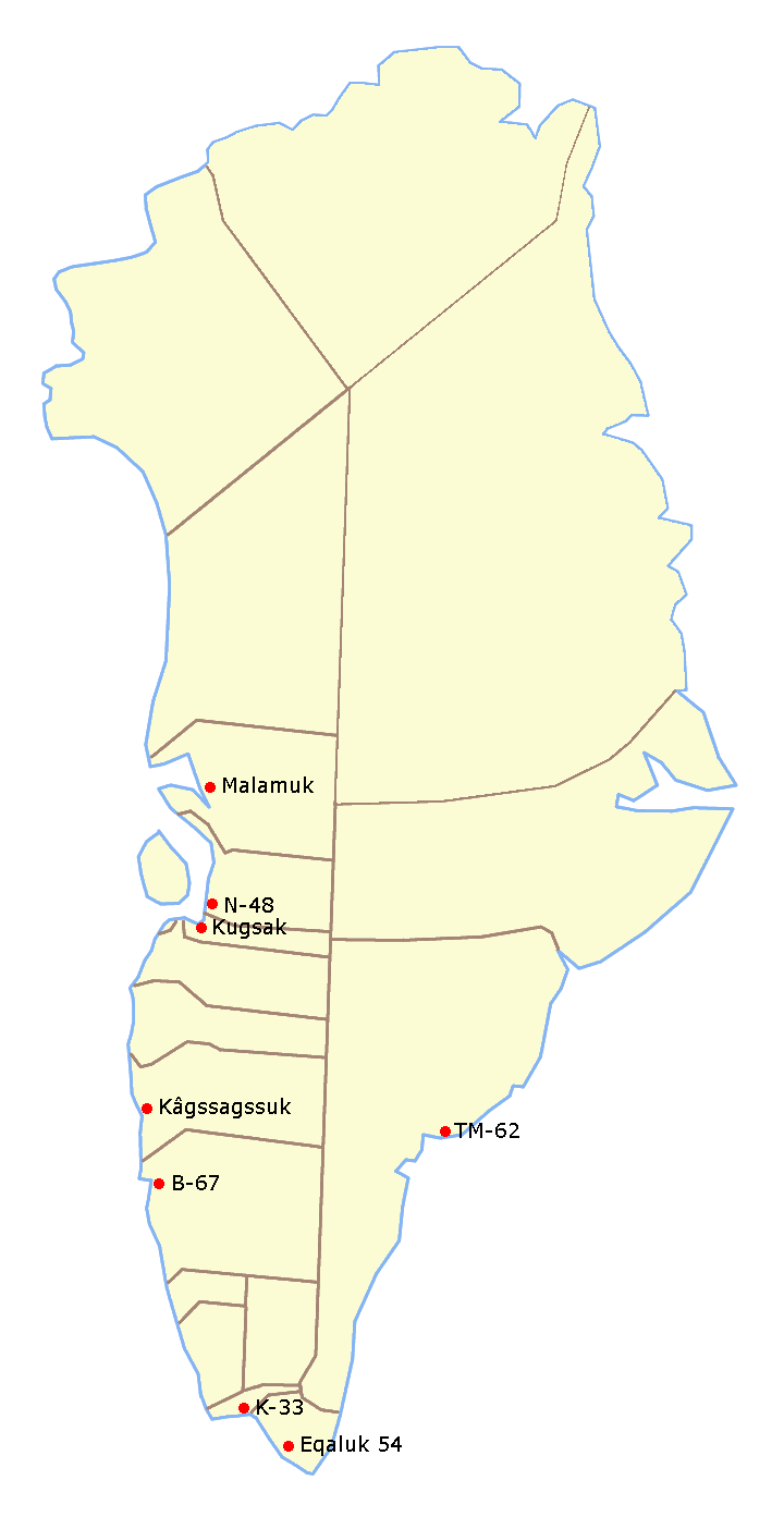 Maps of the associations participating in the Greenlandic football championship during season 2007